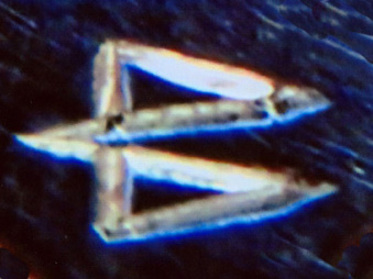 Artist mark found on many pieces of Wilson's Jewelry.